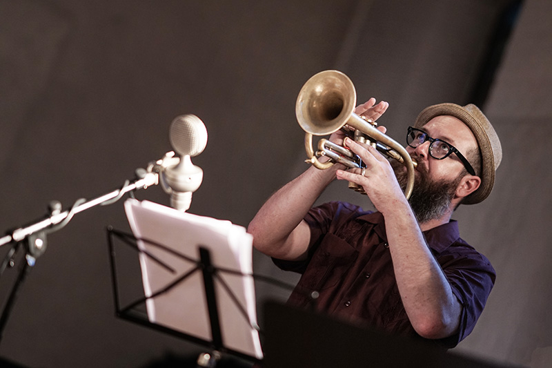 Kirk Knuffke at Copenhagen Jazz Festival 2018